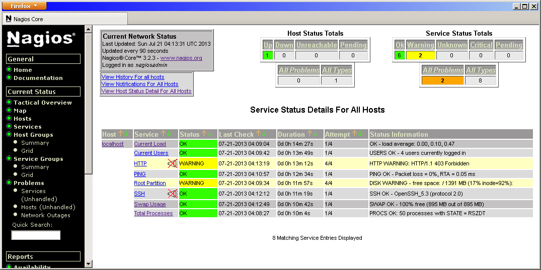 Nagios monitoring a (UAT test) Scalable Grid Engine HPC cluster in Amazon EC2.